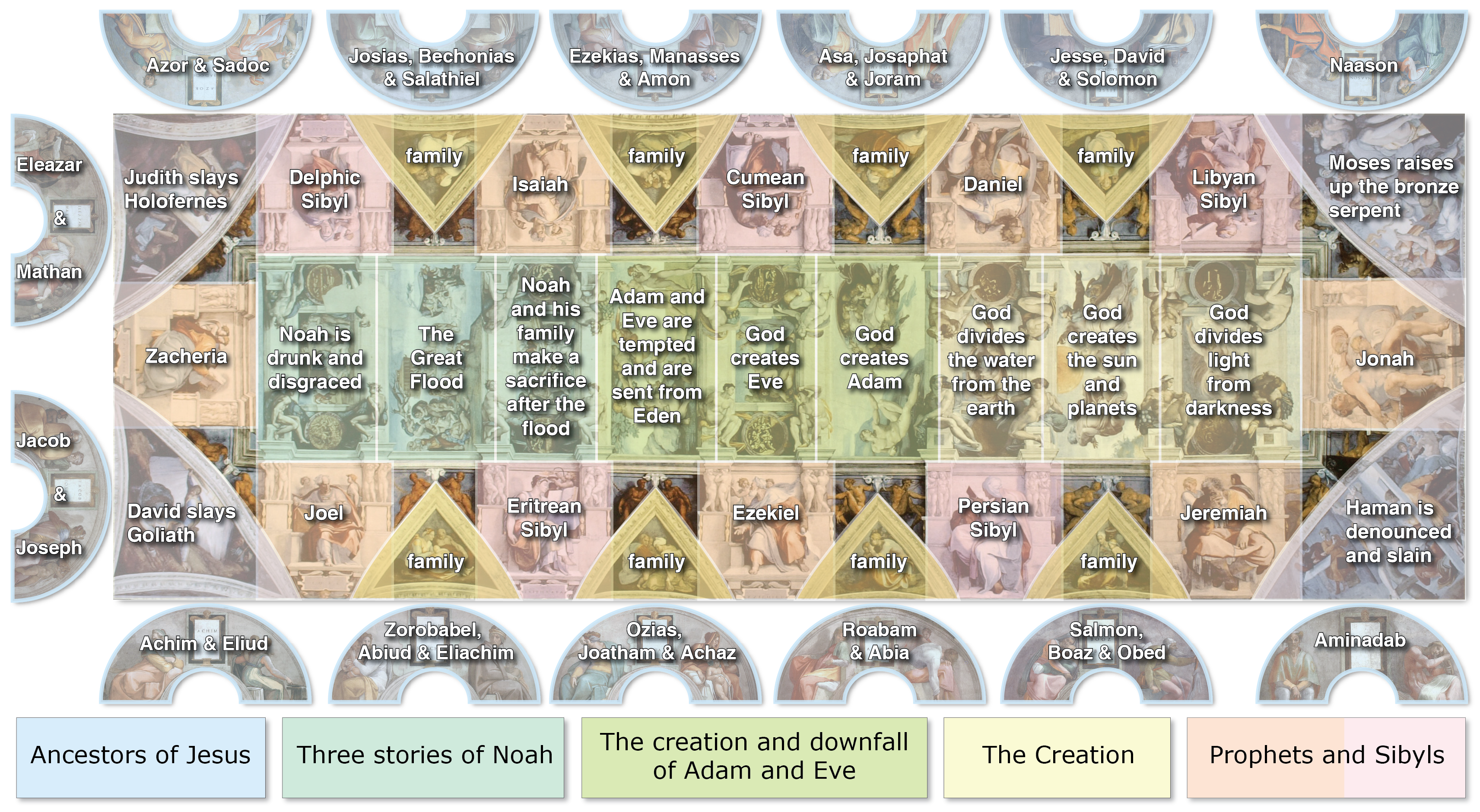 Sistine Chapel, diagram of the scheme of Michelangelo's frescoes. Vectorised and redrawn, superimposed upon bitmap photography. This is a composite of diagram and bitmap images.